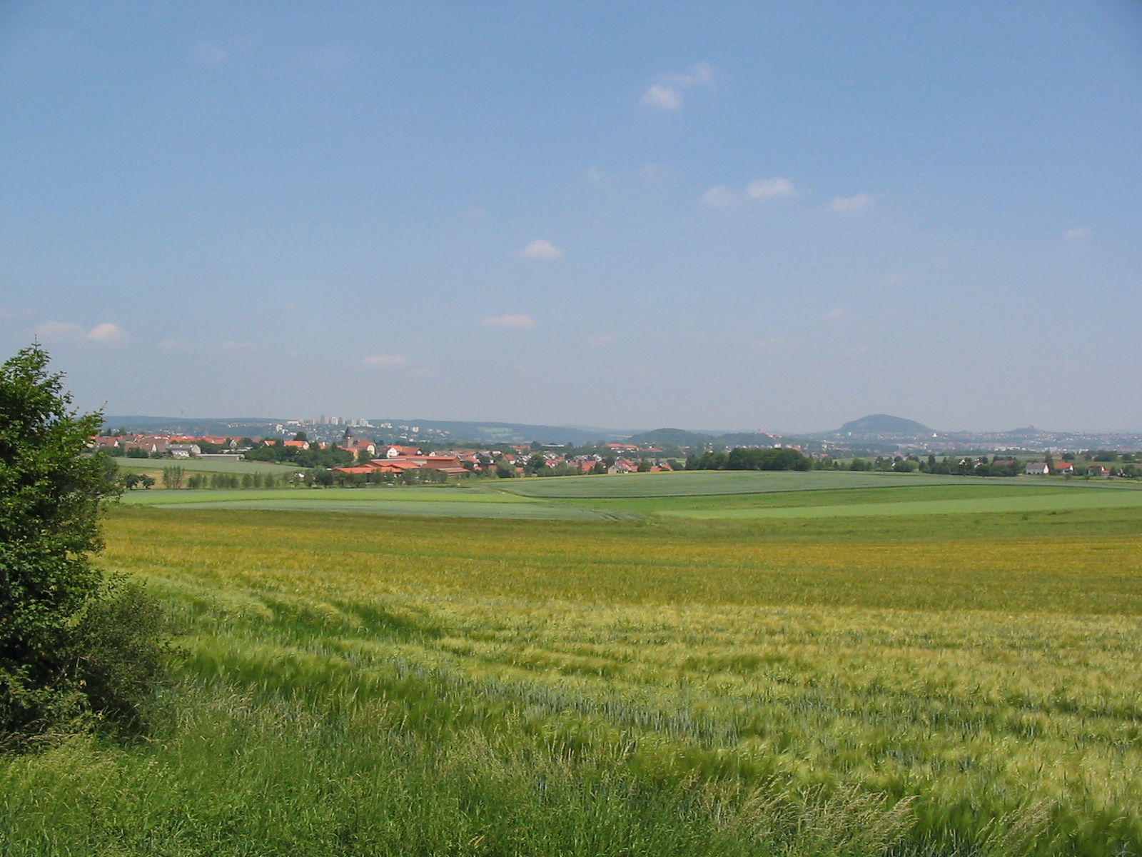 Terrain near the town of Fulda. Countryside in the Fulda district, looking east toward the town of Fulda.